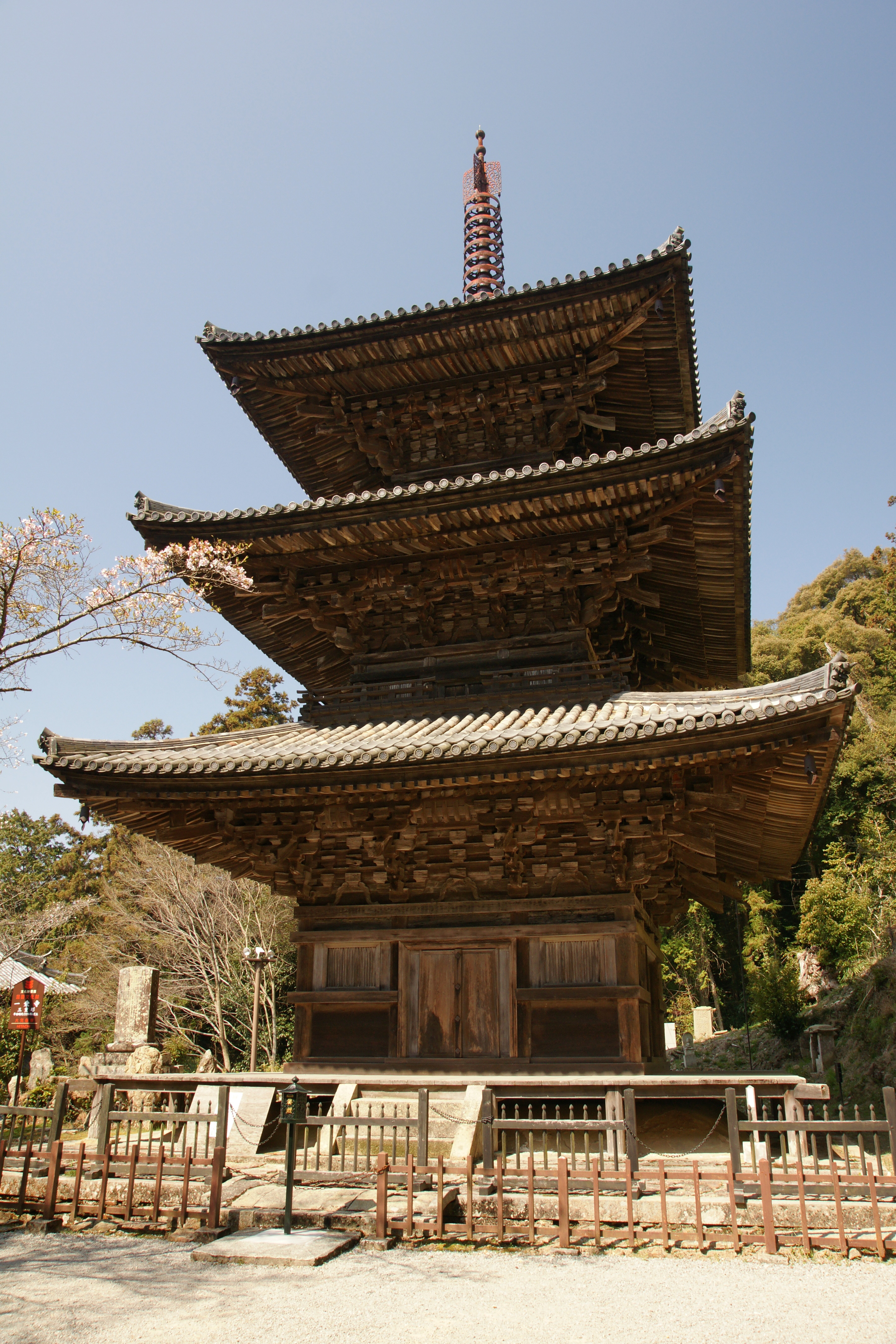 Pagoda of Ichijoji Buddhist temple (Japan's national treasure), Kasai, Hyogo prefecture, Japan